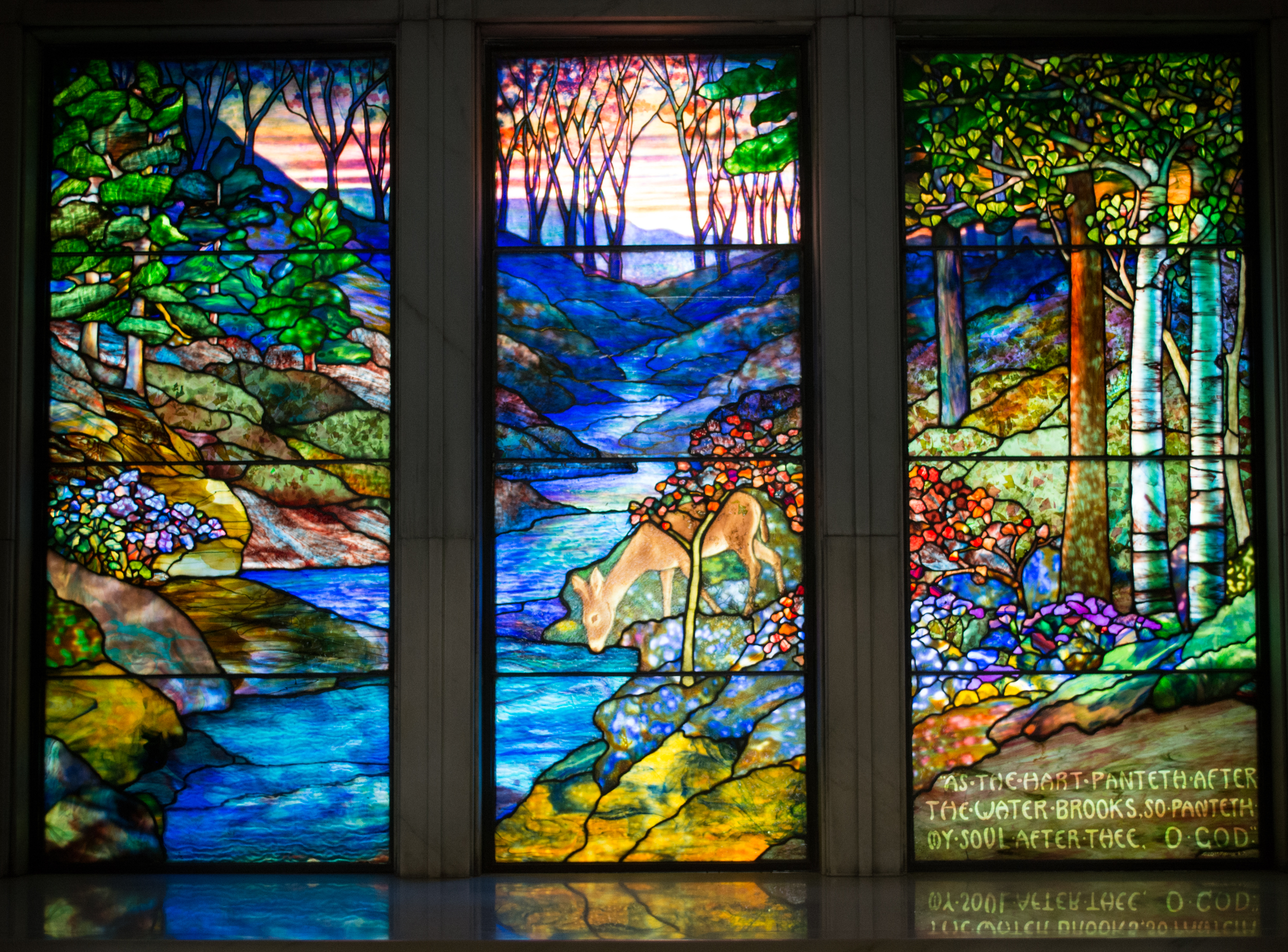 "As the hart panteth after the water", a window by Tiffany & Co. in the mausoleum at Knollwood Cemetery in Mayfield Heights, Ohio, in the United States. The mausoleum was designed by Sidney Lovell, and completed in 1928.